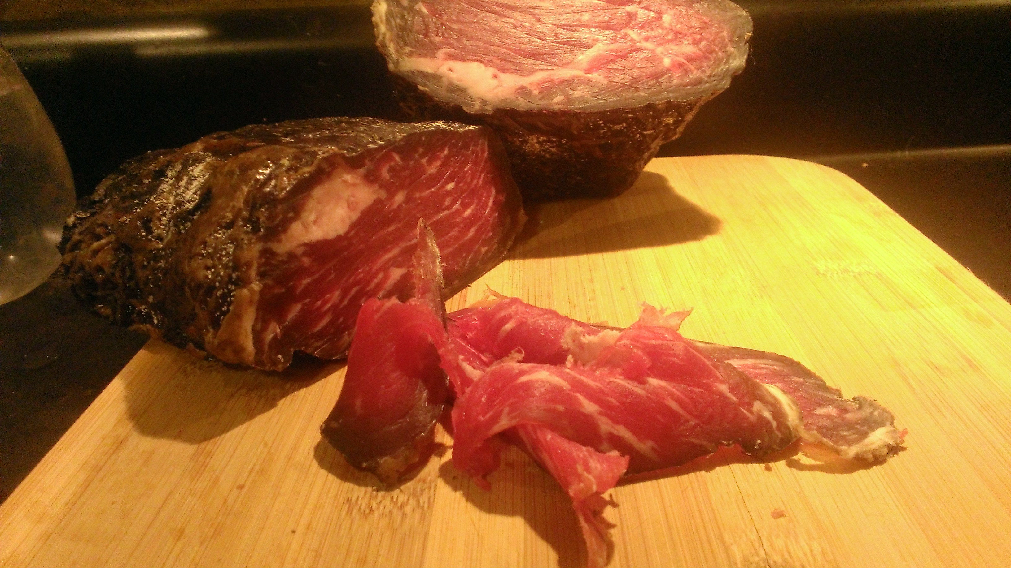 Homemade Bresaola